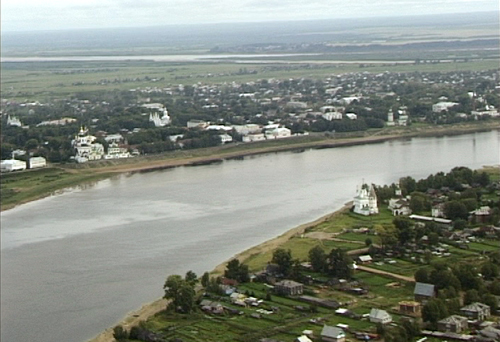 Velikiy Ustyug and Sukhona River. Photo by Anatoly Tetentiev (from airplane), 27 August 2001.